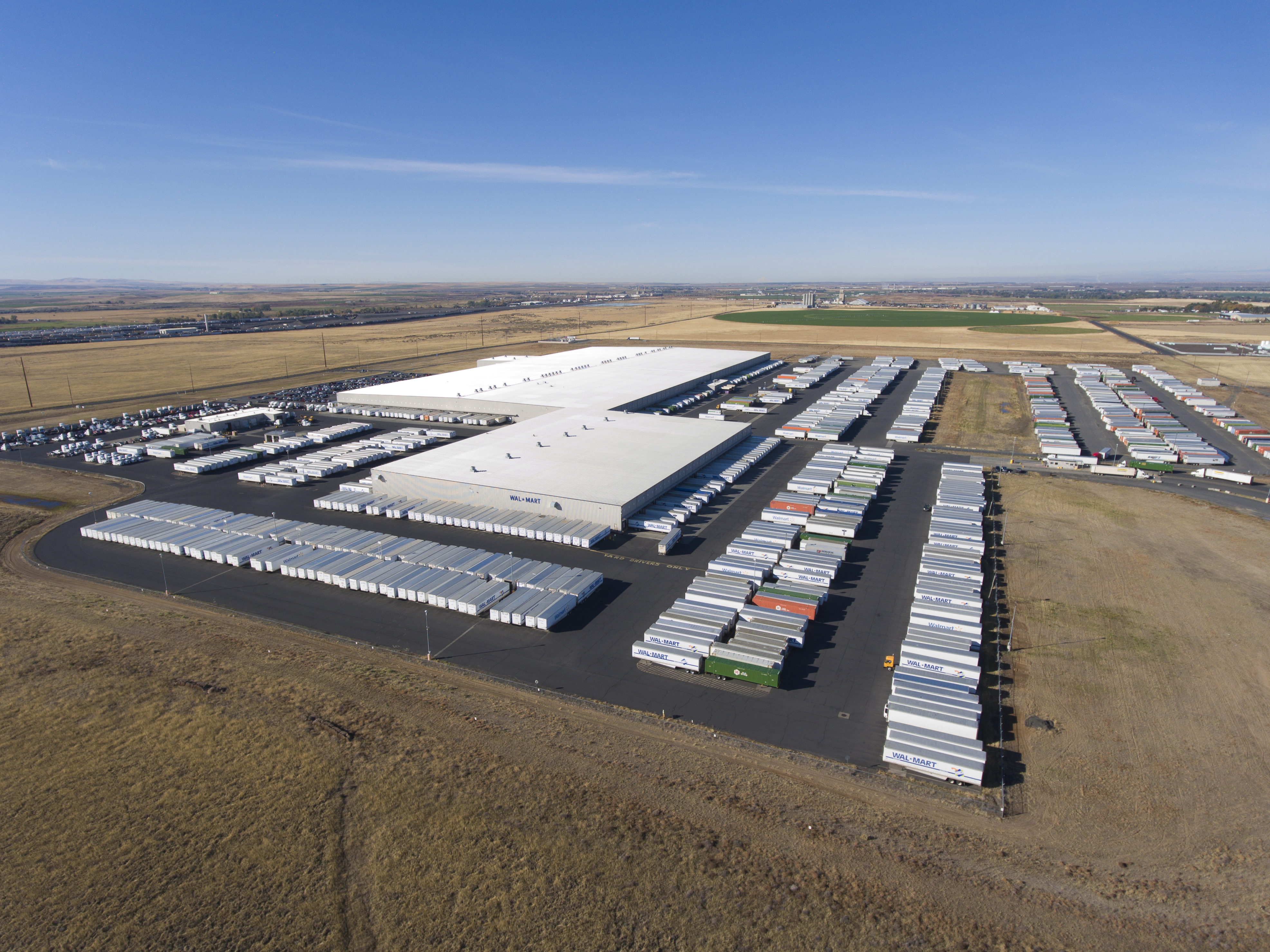 The Wal-Mart Distribution Center in Hermiston. This facility features 18 acres under-roof. Union Pacific's Hinkle Rail Yard is visible in background.